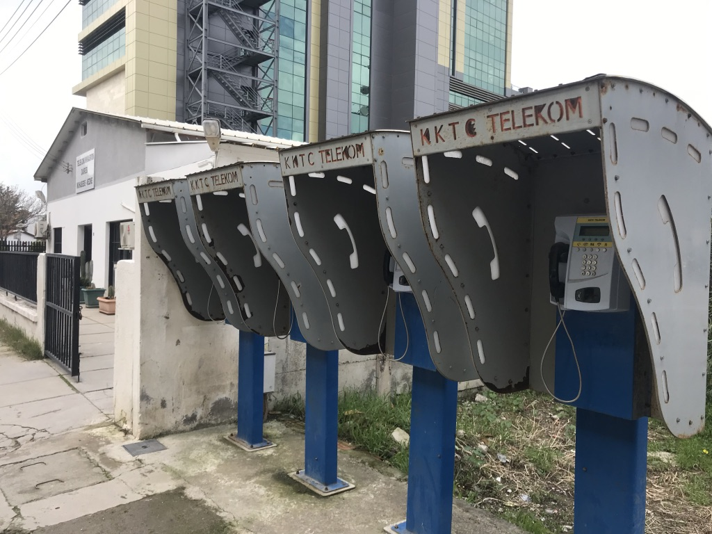 Telephone boxes owned and operated by the Telecommunications Bureau of North Cyprus.